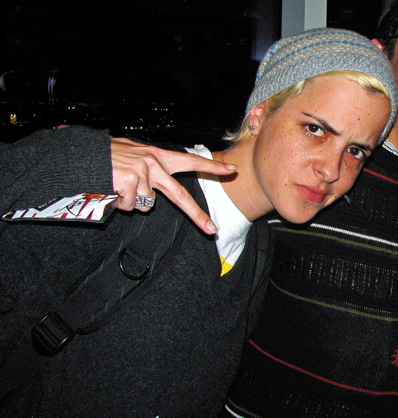 Samantha Ronson and I - Ghostbar, Dallas, TX